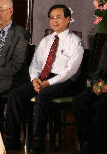 Hsu Tain-Tsair, the Mayor of Tainan City, cropped and sharpen